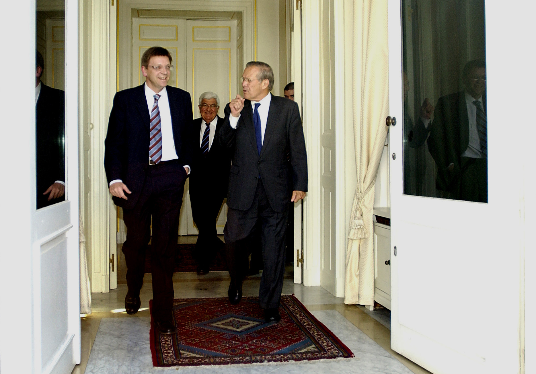 Belgian Prime Minister Guy Verhofstadt (left) and Secretary of Defense Donald H. Rumsfeld exit after a private meeting at his office in Brussels, Belgium, on June 8, 2005. Rumsfeld is in Belgium to meet with Verhofstadt and attend a NATO conference with his counterparts.